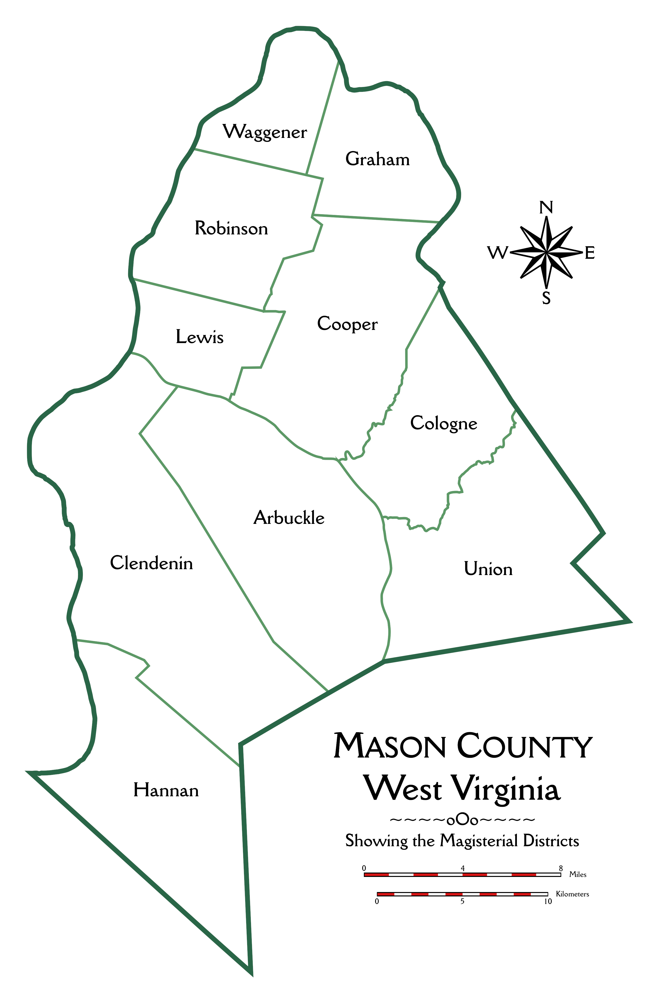 This is an outline map of Mason County, West Virginia, showing the boundaries of the magisterial districts, which are labeled.